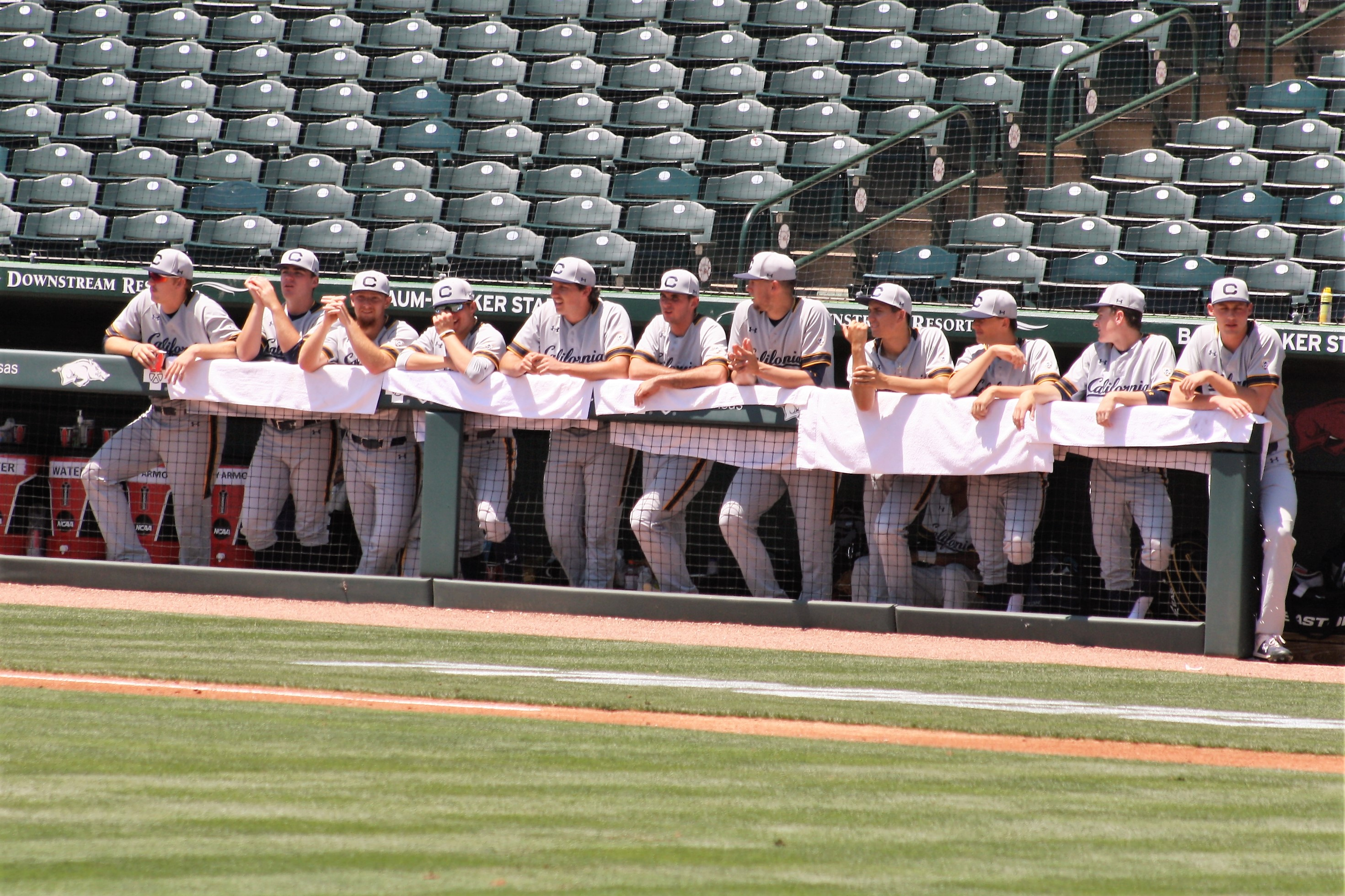 Players for the 2019 Cal Golden Bears baseball team during their final game at Baum-Walker Stadium, Fayetteville, AR, Regional